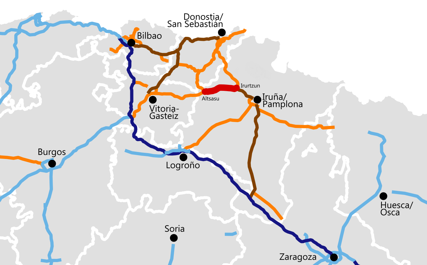 spain a10 map